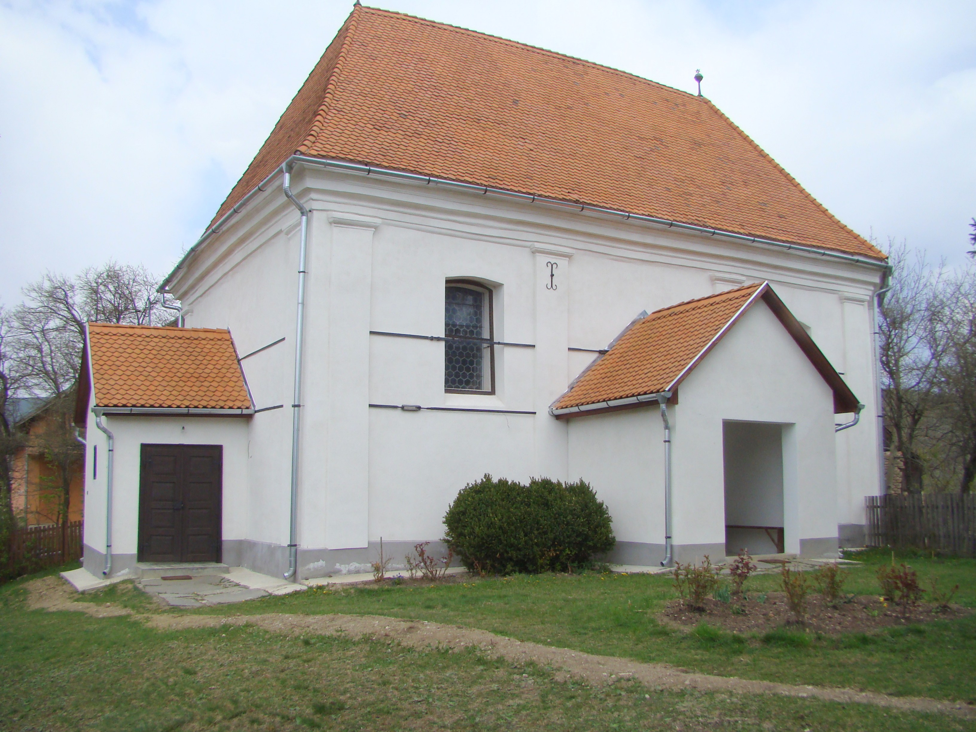 Reformed church in Păltiniș, Harghita county, Romania